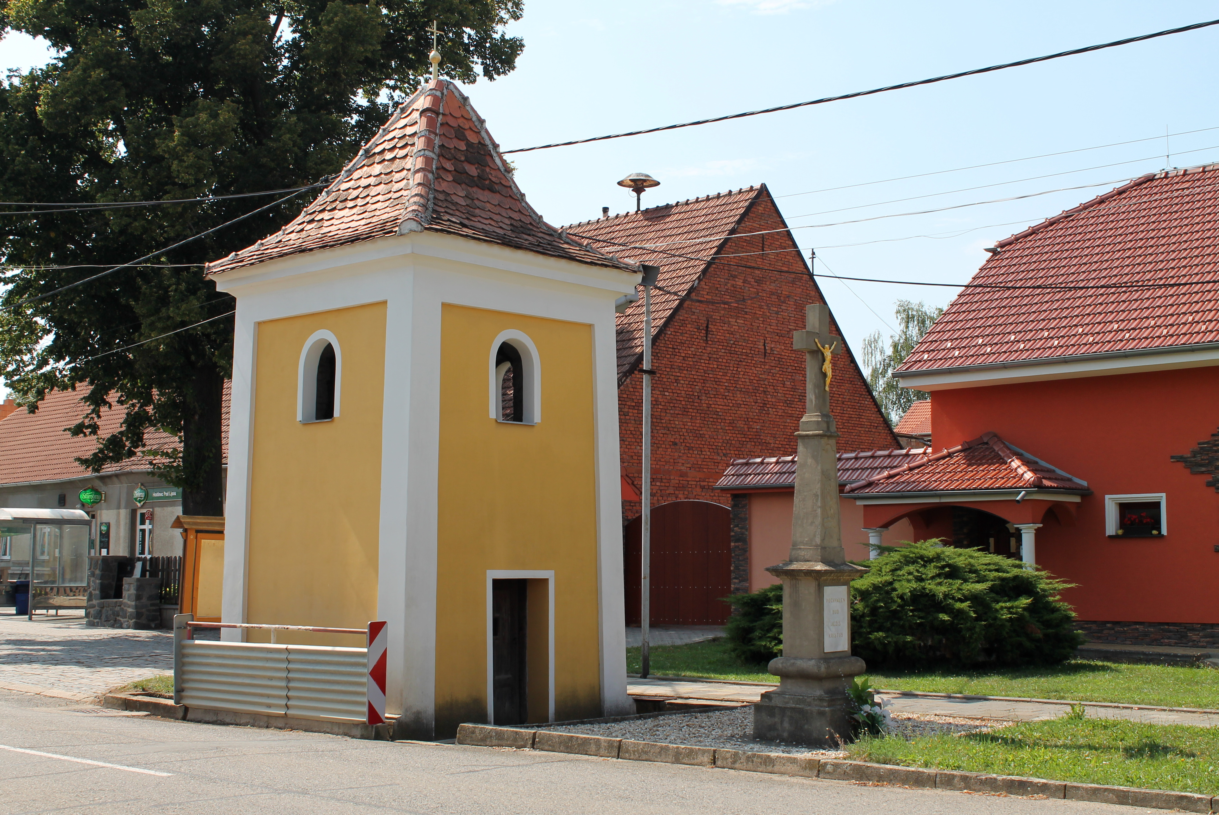 Bell tower, Tučapy, Vyškov District, Czech Republic